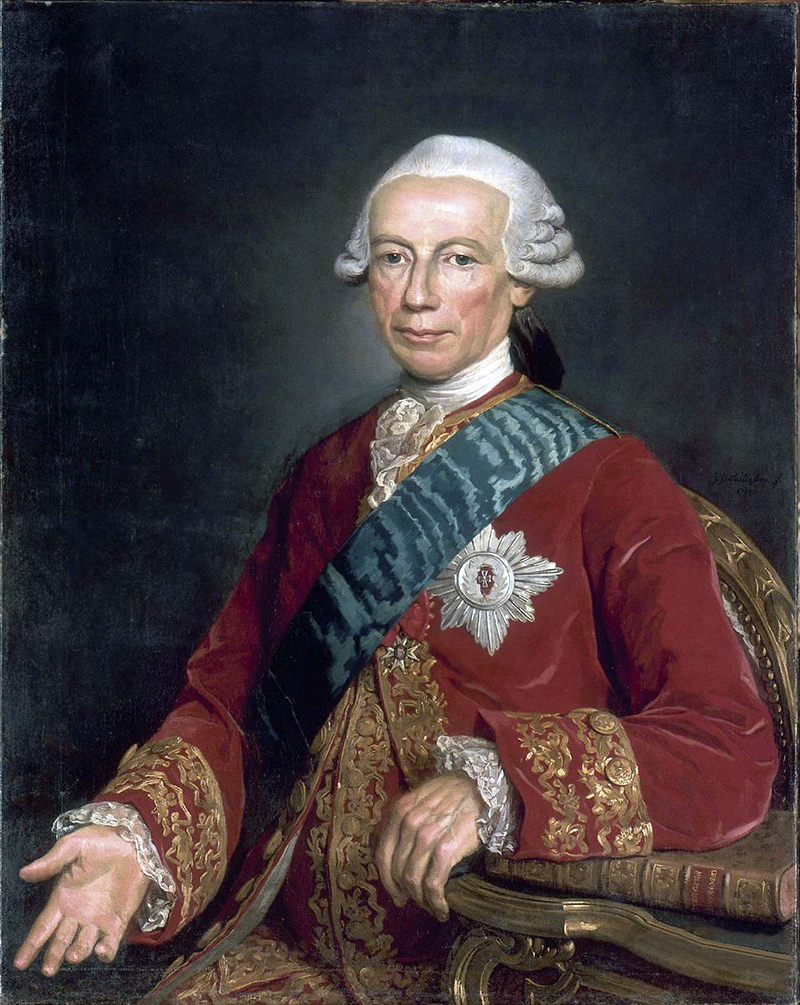 Claude Louis, Comte de Saint-Germain French Lieutenant-General (1757-60)mborn April 15, 1707, Castle of Vertamboz near Lons-le-Saunier, Jura, France died January 15, 1778, Paris, France